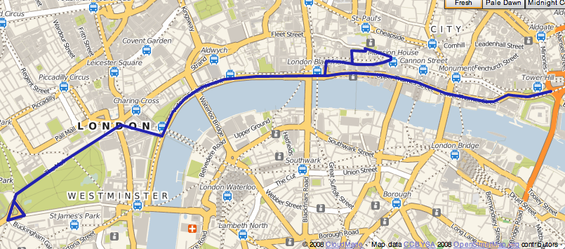 Map showing route of the 2009 Mayor of London's Skyride